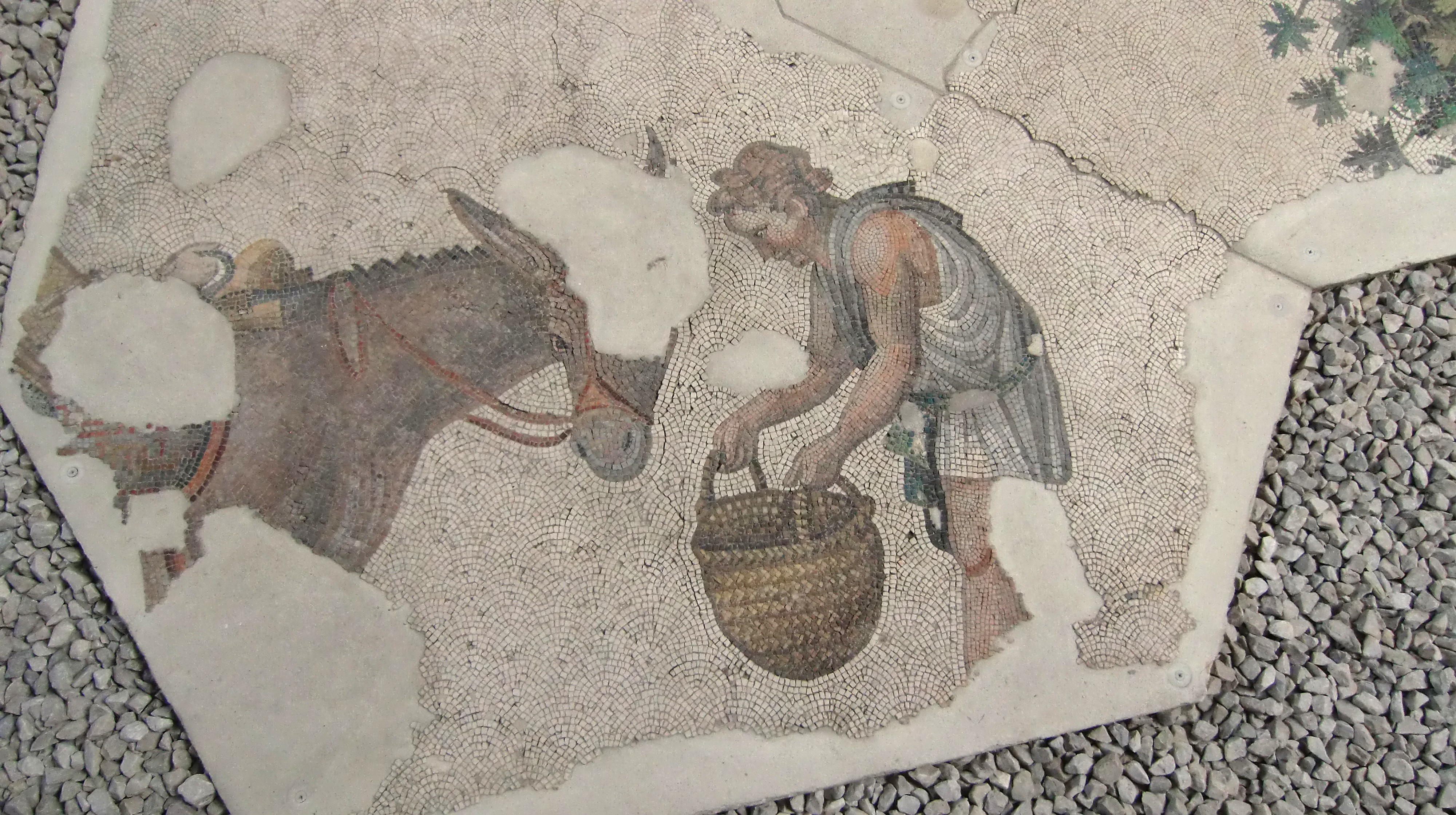 Boy feeding a donkey, byzantine mosaic, 6th century AD, on display in the Great Palace Mosaic Museum, Istanbul